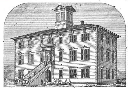 The building which housed the Bishop Whitaker's School for Girls. The building, built in 1879, was put to other uses after the school shut down in 1894. It was later converted to a hospital, and eventually demolished.